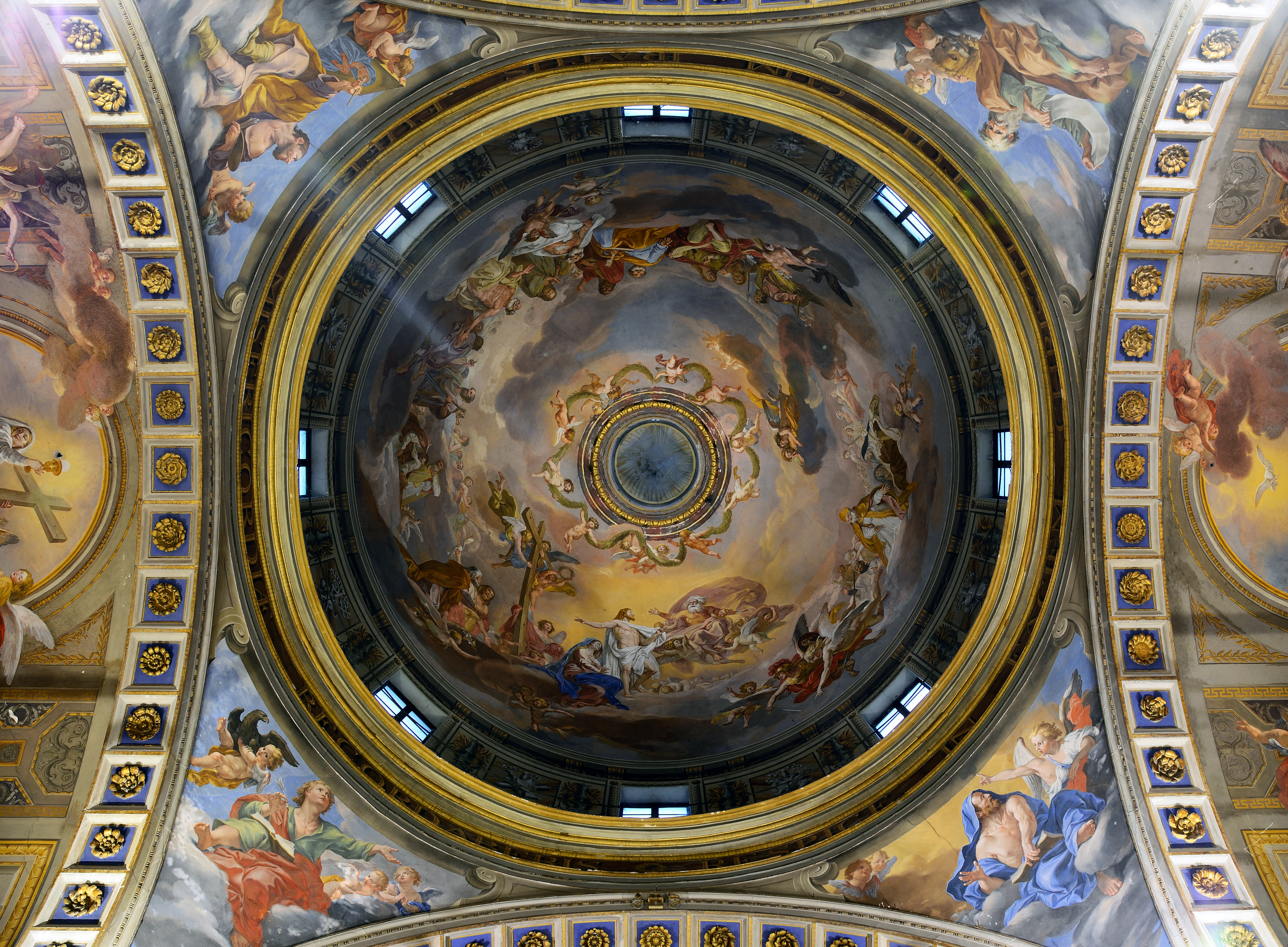 Dome of Duomo di Città di Castello